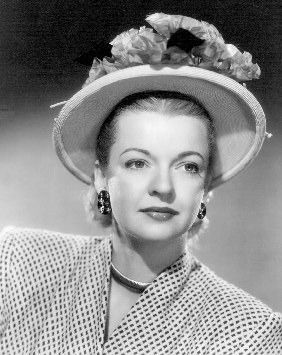 Photo of Dale Evans.